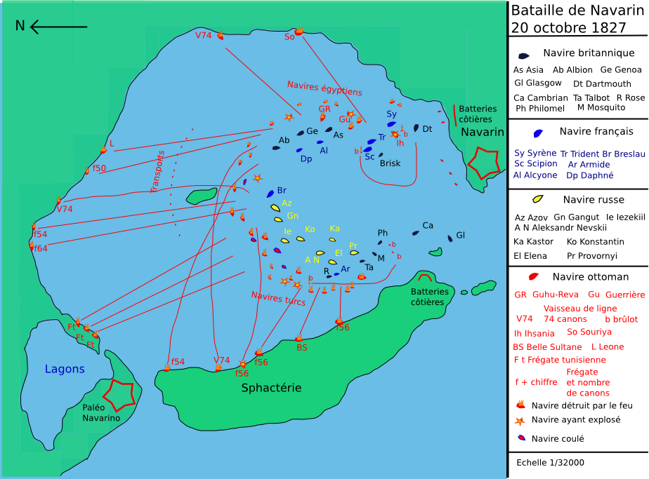 Déroulement de la bataille. Unfolding of the battle.